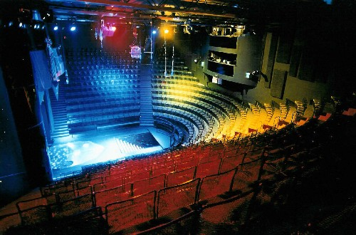 Theatre Milénium, Prague